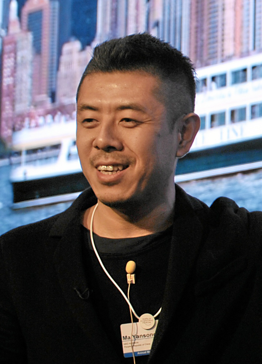 DAVOS/SWITZERLAND, 26JAN13 - Ma Yansong, Founder and Principal Architect, MAD Architects, People's Republic of China is seen during the Session 'Unleashing Entrepreneurial Innovation with Stanford University' at the Annual Meeting 2013 of the World Economic Forum in Davos, Switzerland, January 26, 2013.. . Copyright by World Economic Forum. . Urs Jaudas